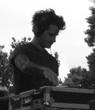 Joshua Eustis of Telefon Tel Aviv performing at Chicago's Wicker Park Arts and Music festival